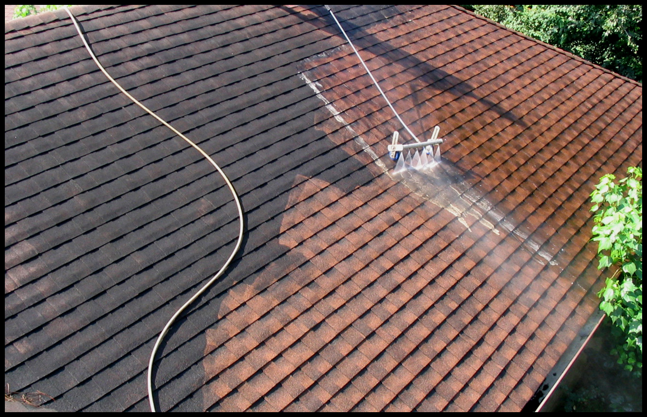 Low pressure roof washing